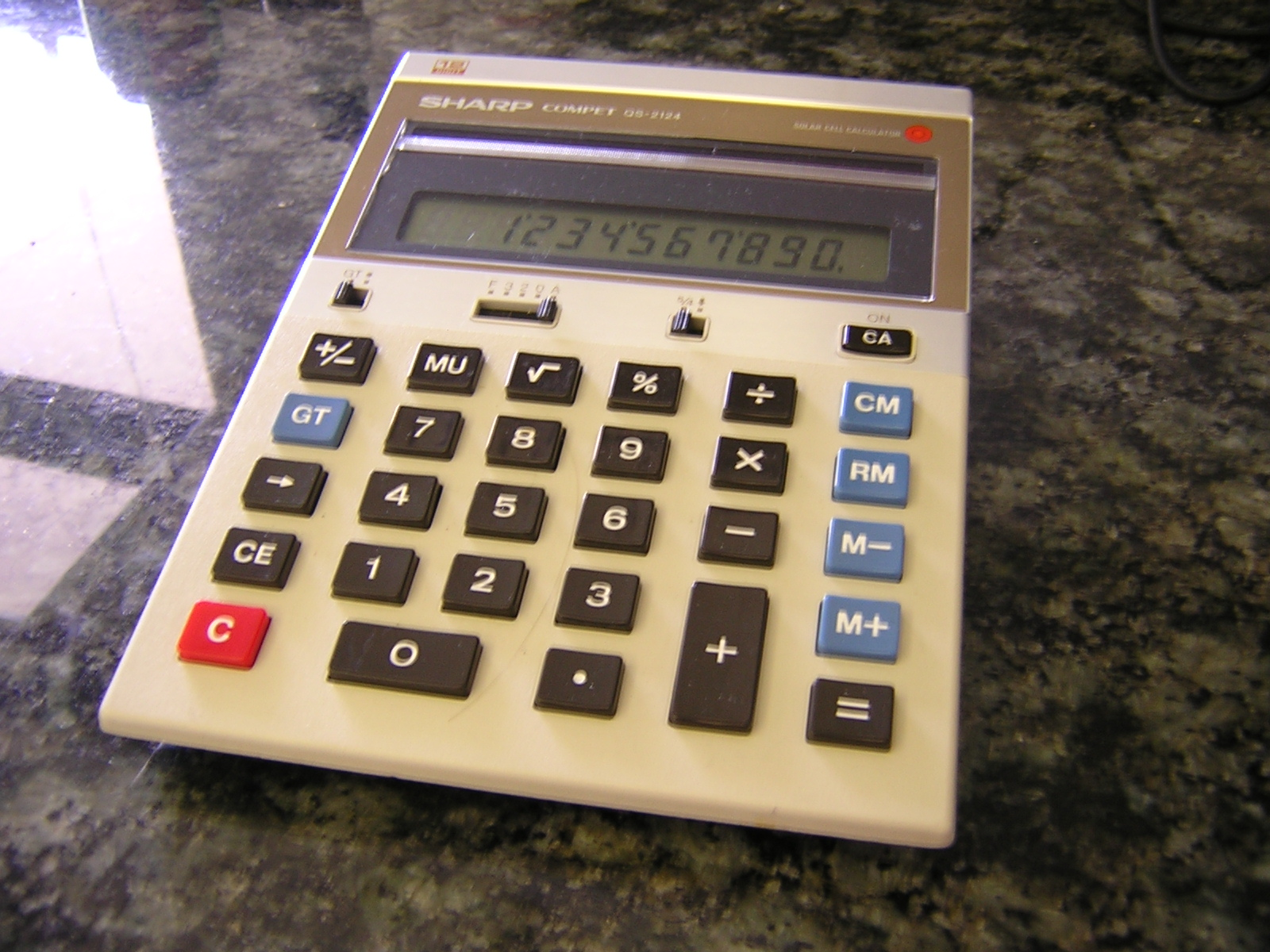 Vintage Sharp Compet calculator.